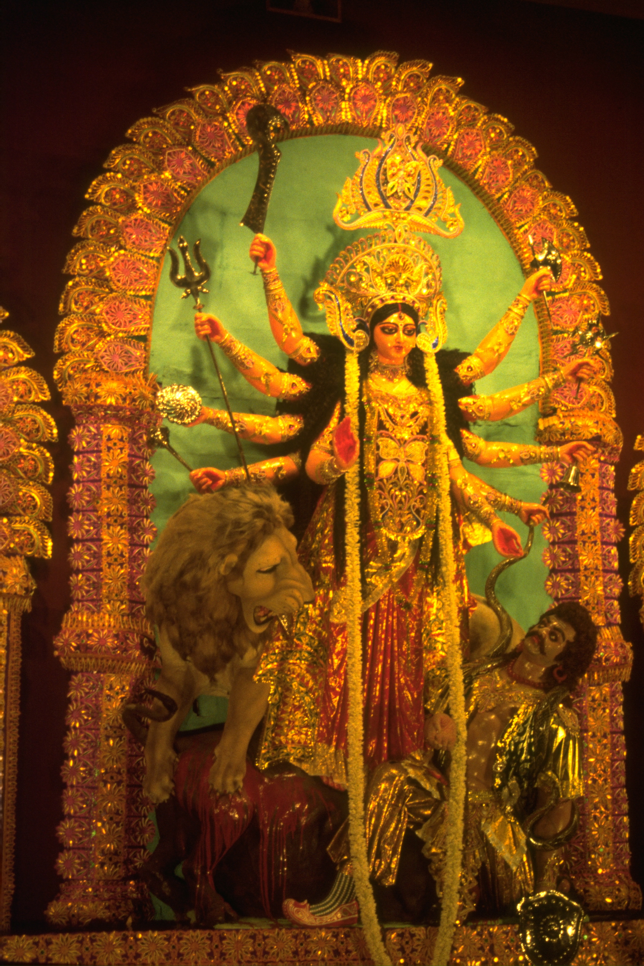 Durga Puja in Calcutta, 1995